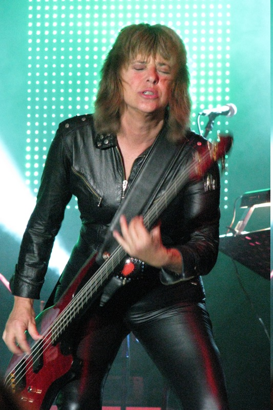 Singer Suzi Quatro at AIS Arena in Canberra, Australia on 26 September 2007.